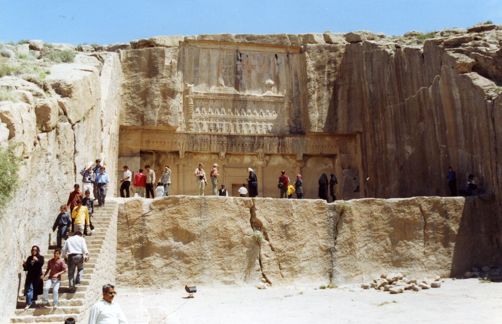 Picture Taken by myself Persepolis Iran April 2006. Tomb of Artaxerxes III